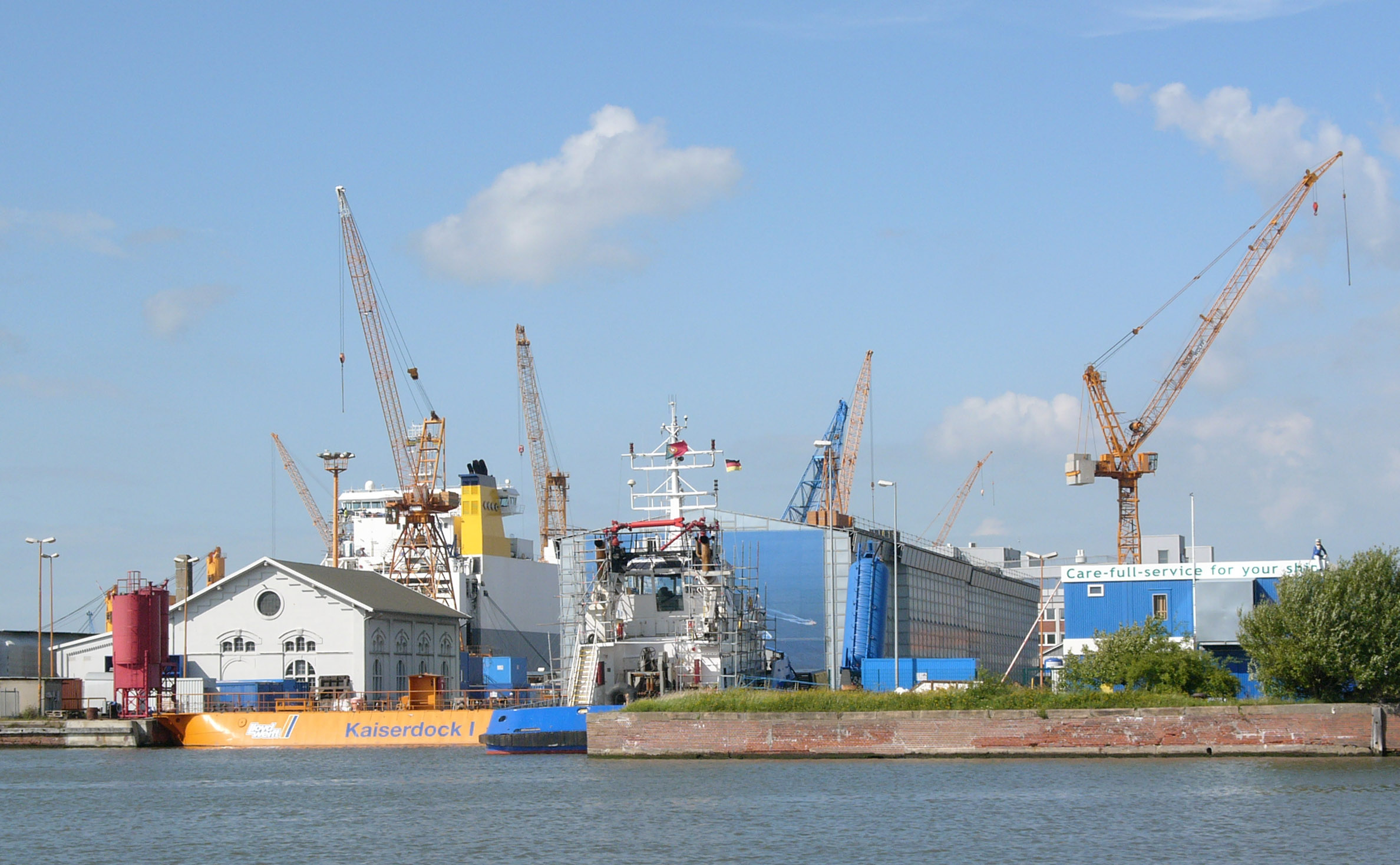 Lloyd ship yard with dry-dock Kaiserdock I; harbour of Bremerhaven.